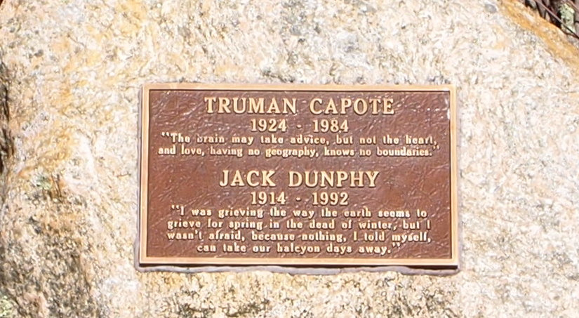 Truman Capote and Jack Dunphy Stone at Crooked Pond on Long Pond Greenbelt, between Sag Harbor and Bridgehampton, New York, in Southampton, New York.